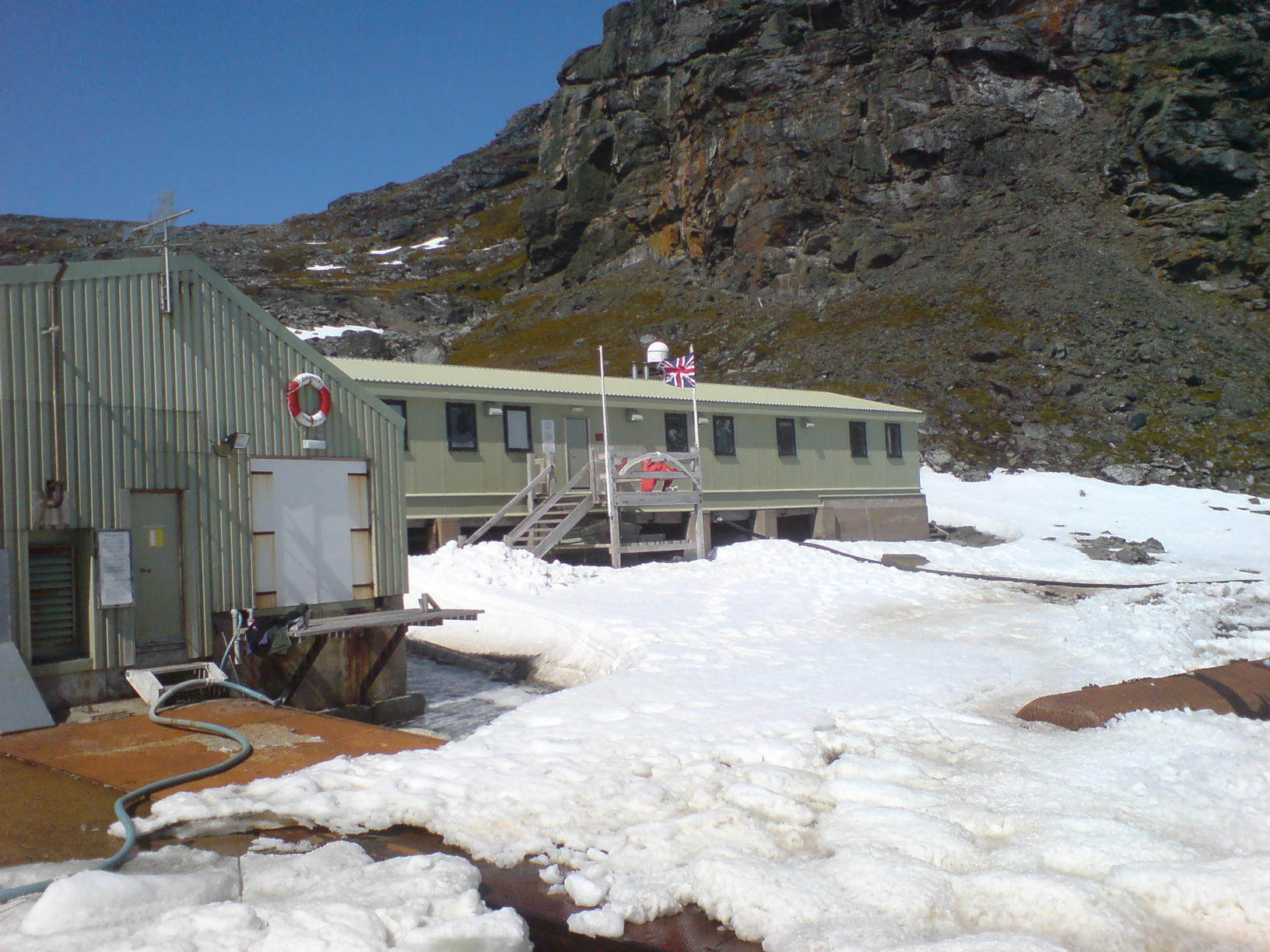 The British scientific station on Signy Island